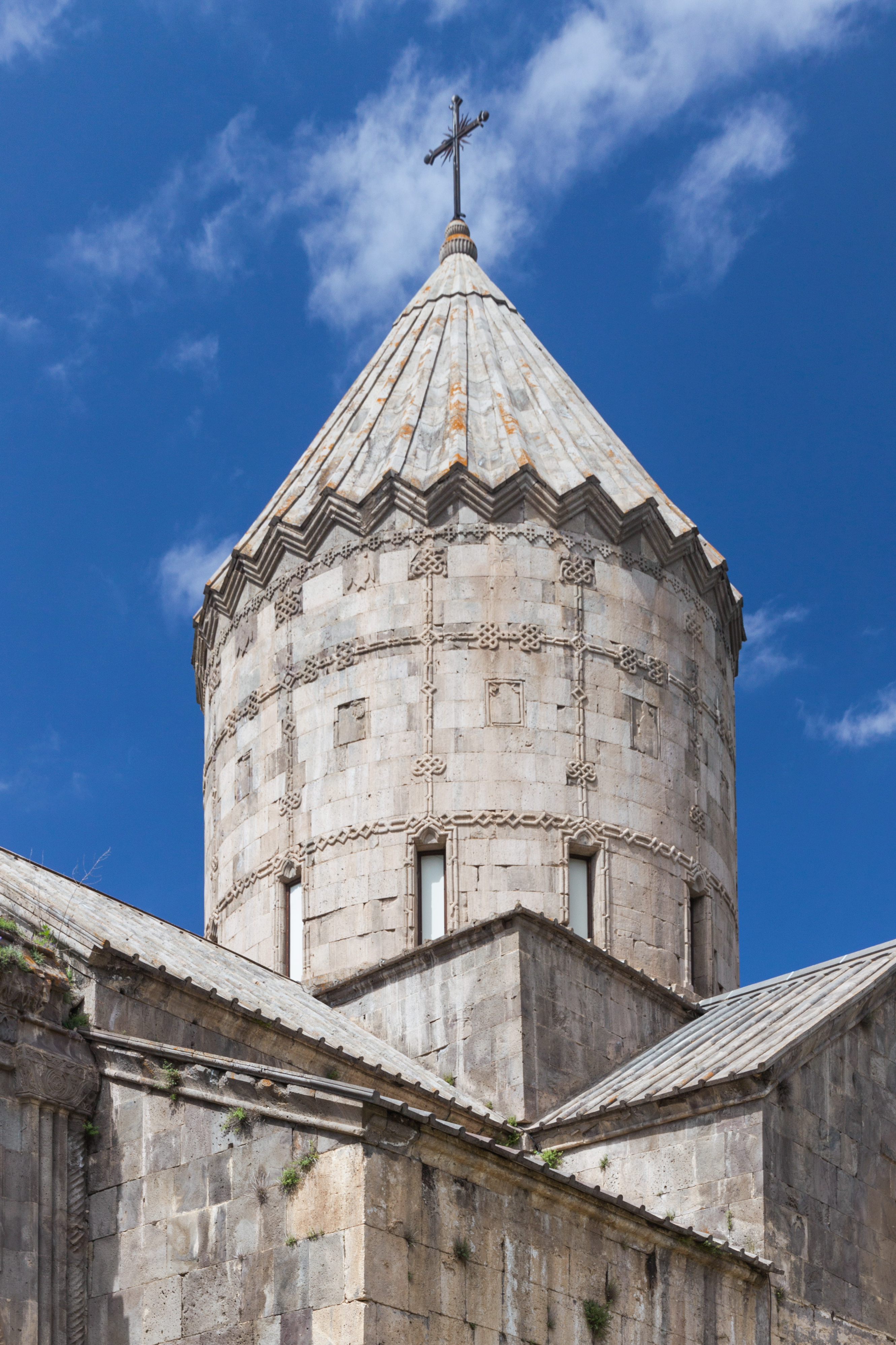 Sts. Peter and Paul Church (Surb Poghos Petros). Tatev monastery. Tatev, Syunik Province, Armenia.